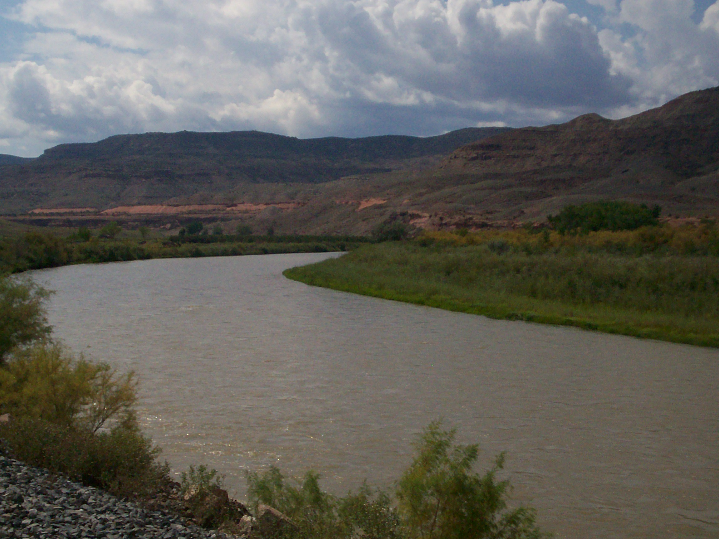 The Colorado River near Grand Junction, Colorado by David Jolley 2006.